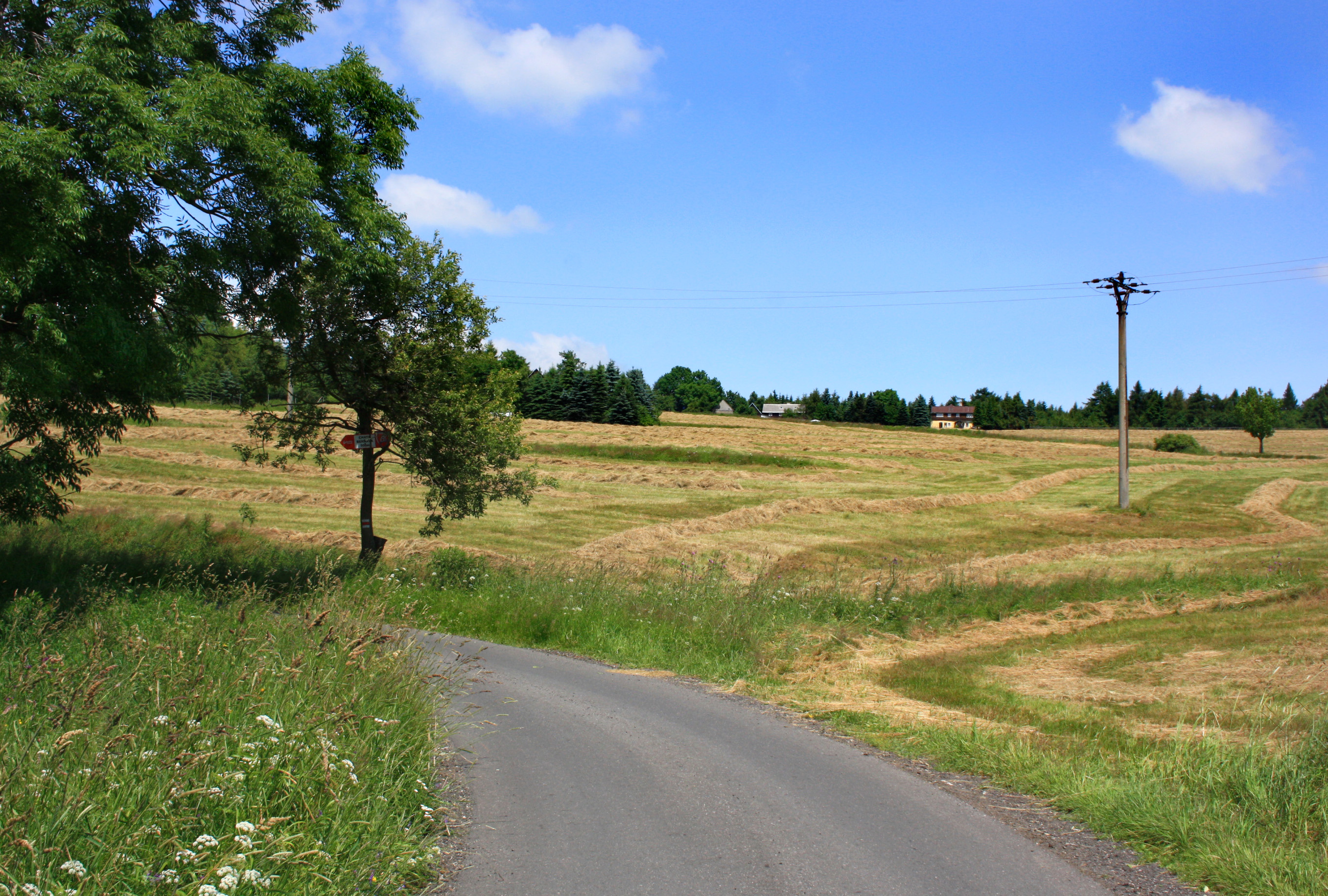 Upper part of Zákoutí village, part of Blatno, Czech Republic